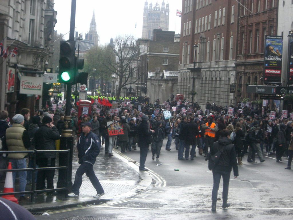 Protestors in London on 30 November 2010